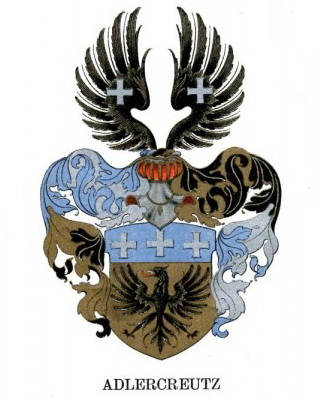 Coat of arms of the Adlercreutz family